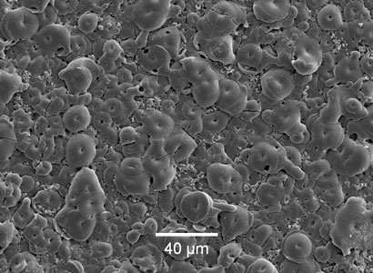 This is an SEM micrograph of a typical PEO coating showing characteristic surface morphology: there are many small (~20 micron diameter), overlapping, volcano-like eruptions onto the surface, indicating the local melt flow which occurs during the process.